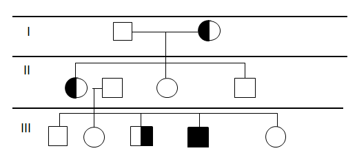 An example pedigree of pattern of inheritance involving expressivity of a phenotype.